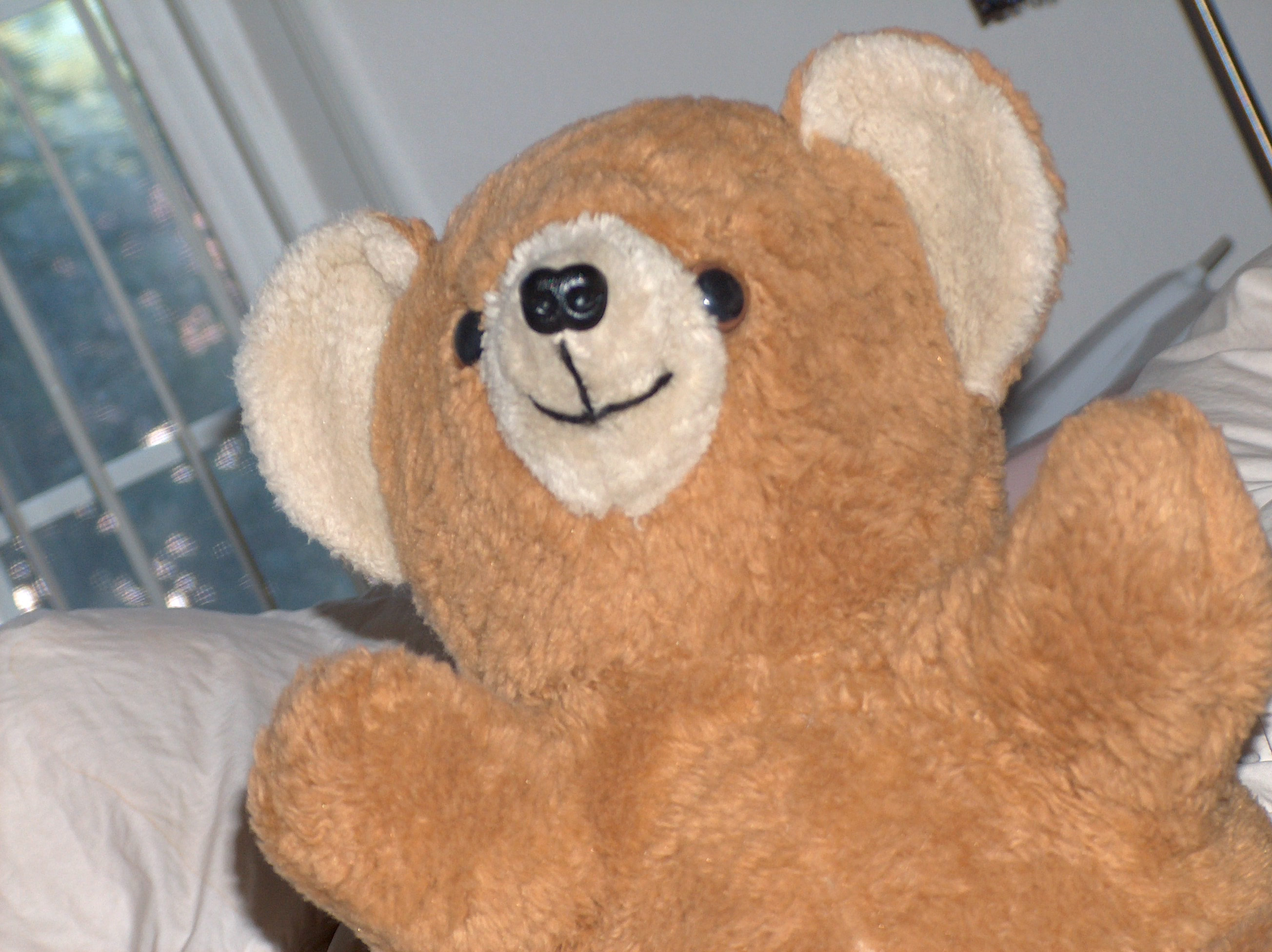 Teddy bear named Marshmallow. Photo taken by User:Mike R on 22 June, 2004.